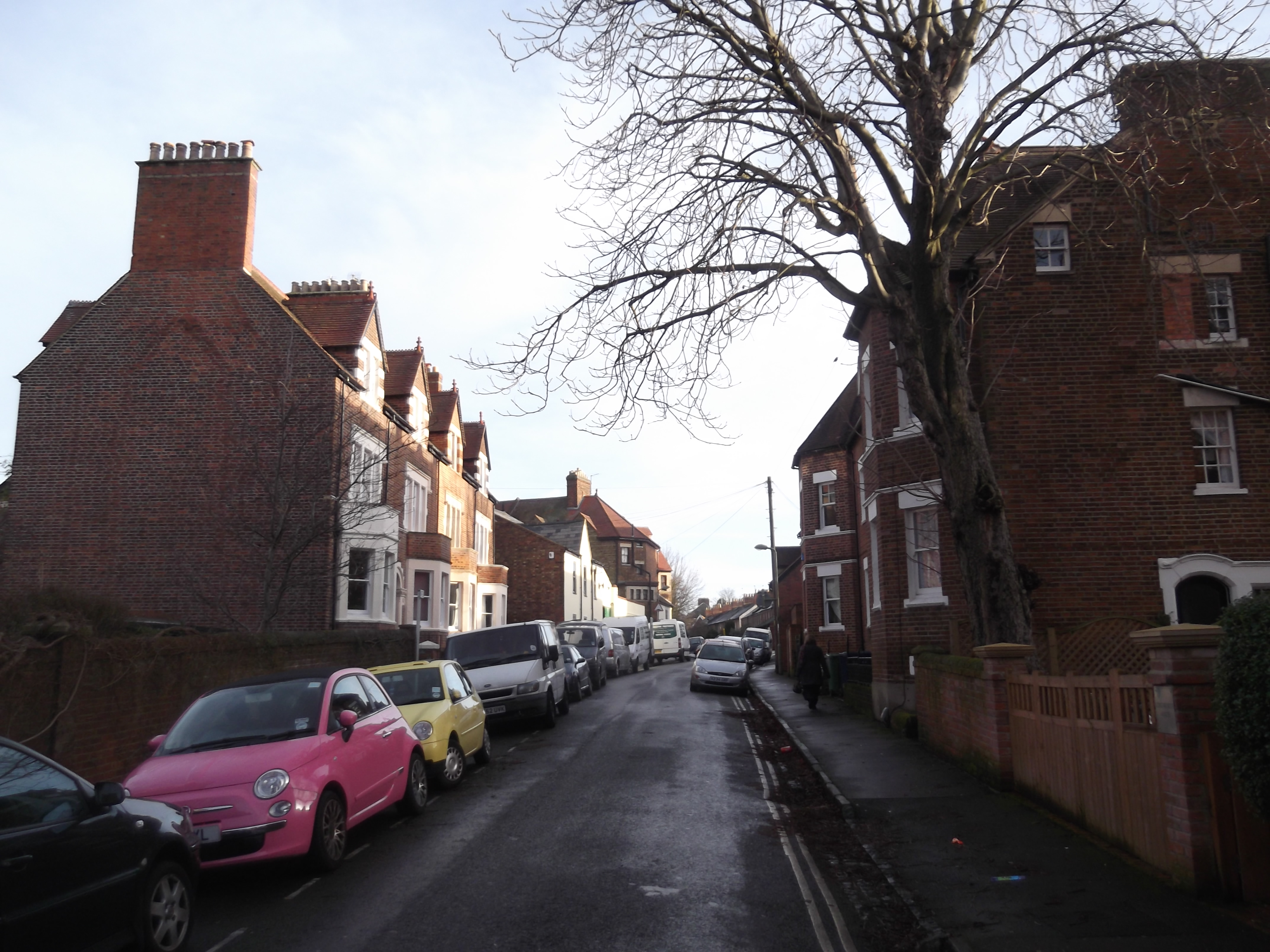 View east along Longworth Road from the junction with Walton Well Road and Southmoor Road in Oxford, England.